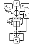 A diagram for the EnRUPT block cipher.